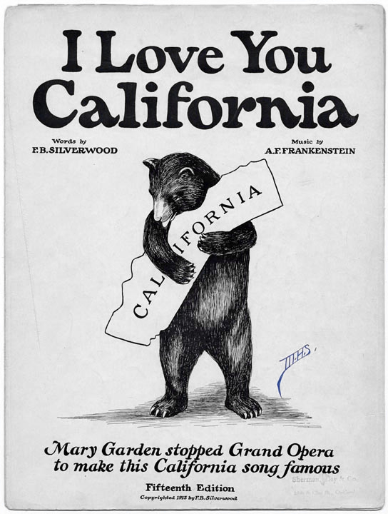 I Love You, California (1913 cover illustration for sheet music)